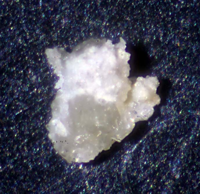 White crystals of the very rare mineral aiolosite from the type and only known locality worldwide for the species: La Fossa Crater, Vulcano Island, Aeolian Islands, Sicily, Italy